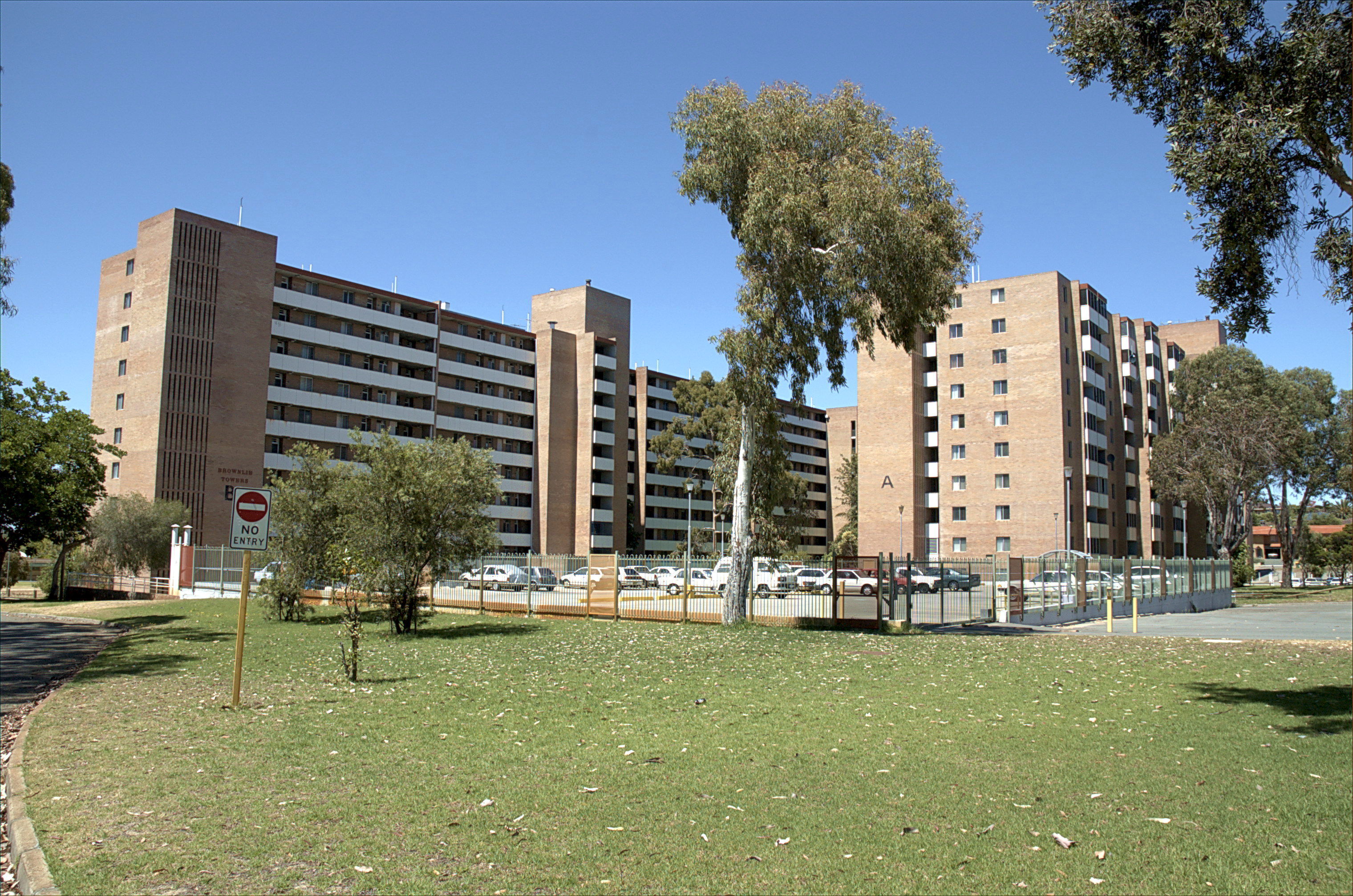 Photo taken (1st Jan 2006) and supplied by Nachoman-au. Brownlie Towers in Bentley, Western Australia.